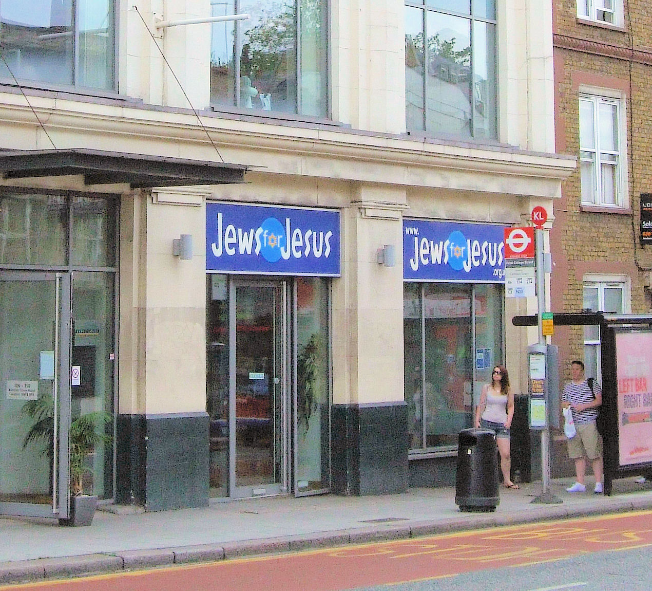 Jews for Jesus is a Christian evangelistic organization that focuses specifically on the conversion of Jews to Christianity.